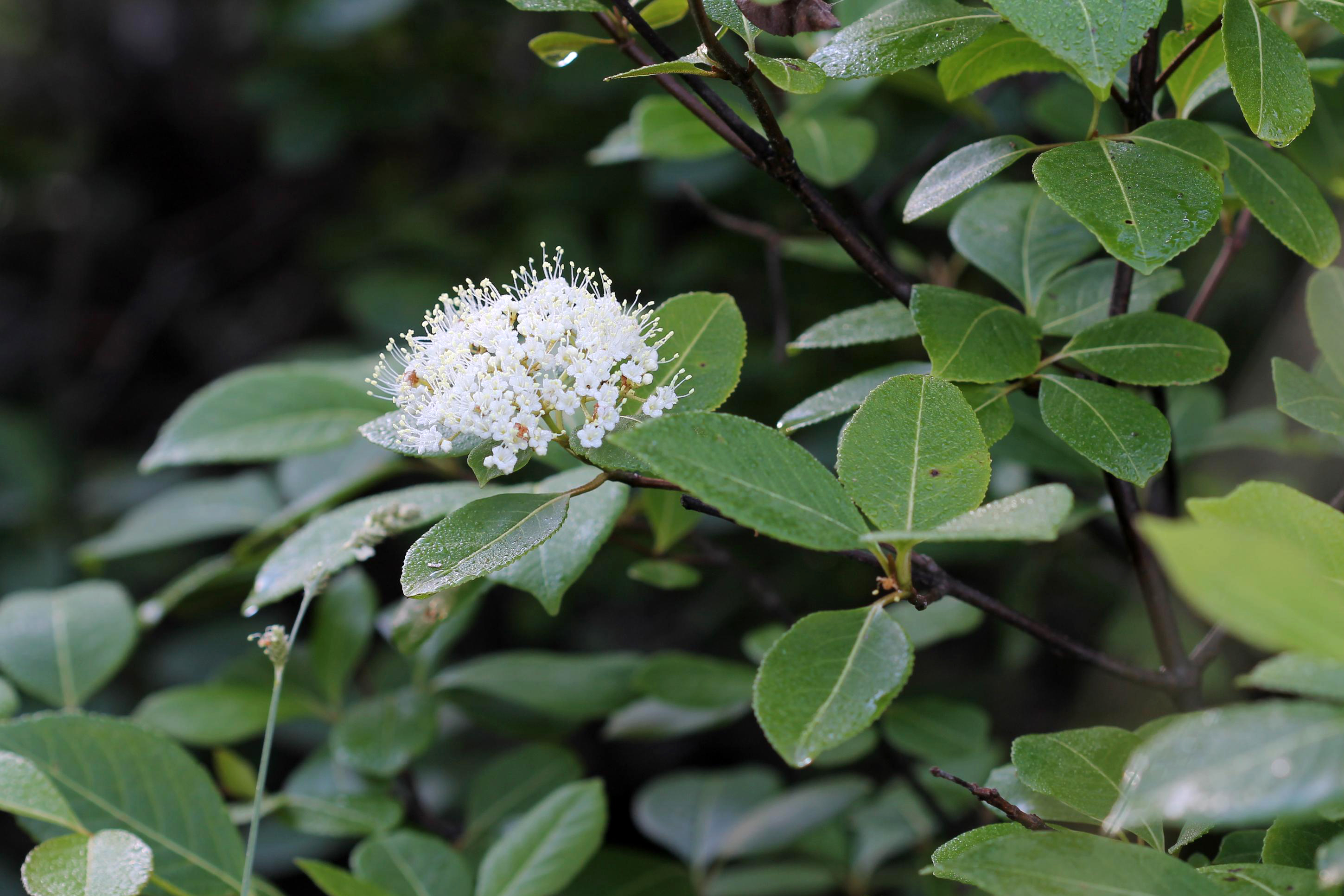 wild raisin (Viburnum cassinoides); note leaf margins may be entire or serrated (highly variable)